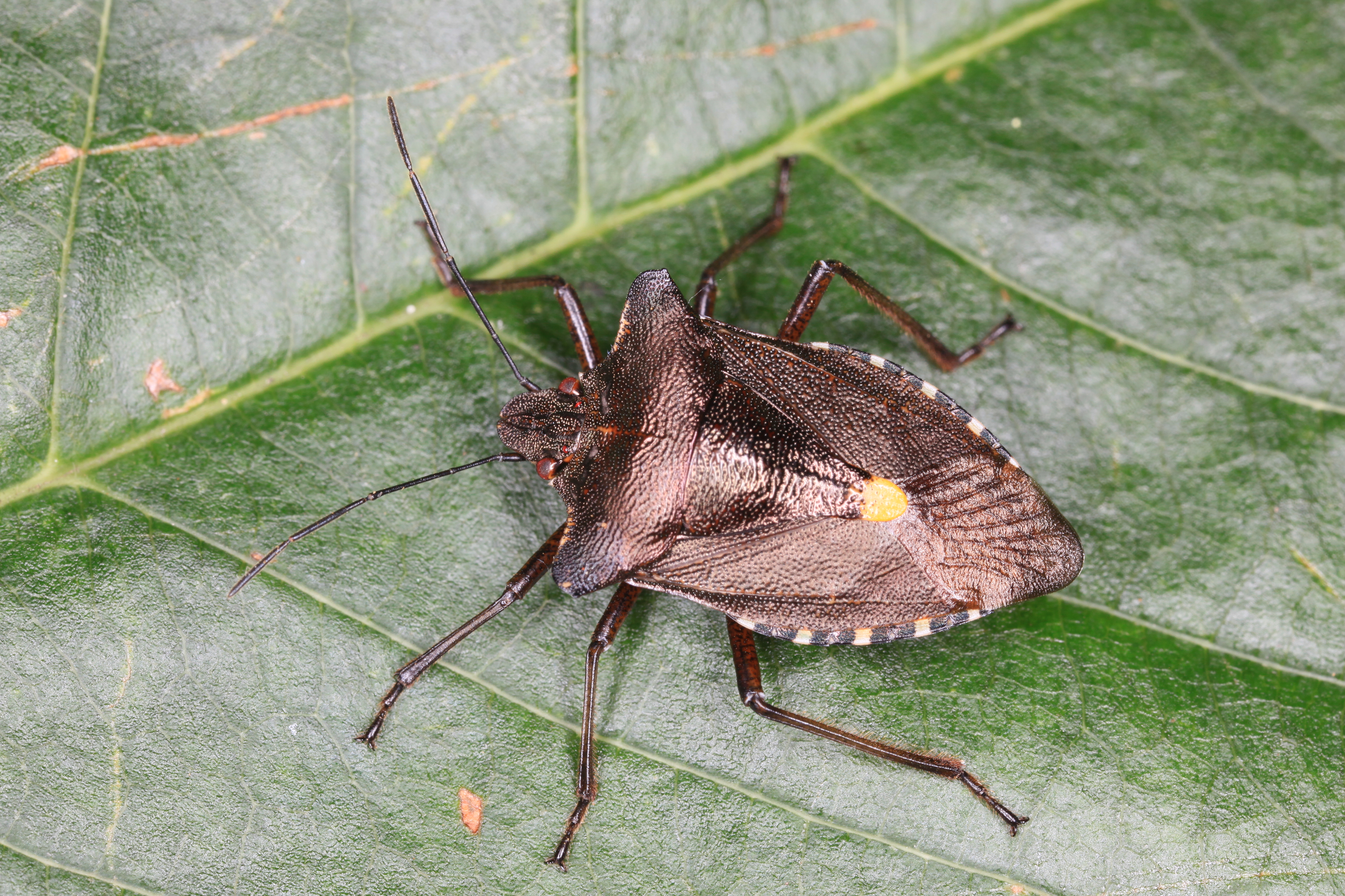 Forest bug (Pentatoma rufipes) at a cherry leaf.